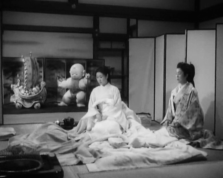 Screenshot from The Life of Oharu, 1952 film.